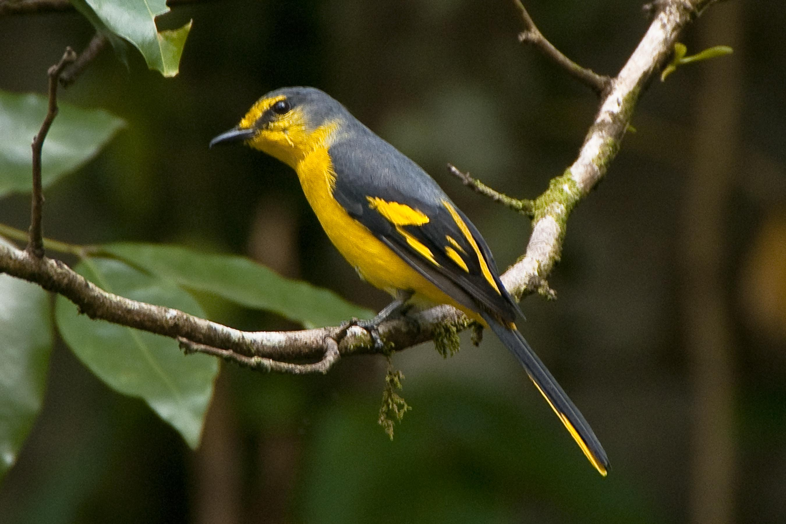 A female Scarlet Minivet in Sri Lanka.